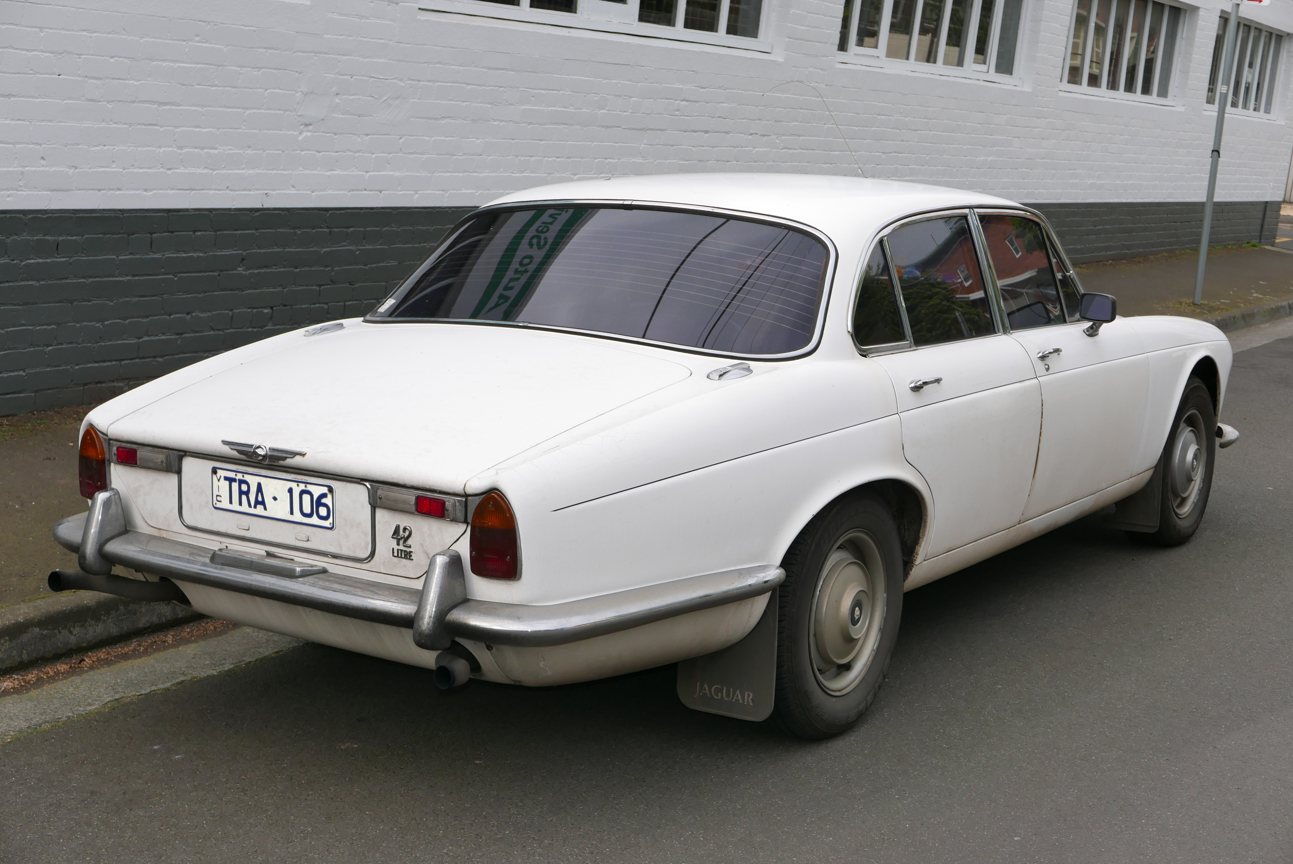 1973 Jaguar XJ6 (Series I) 4.2 SWB sedan. Photographed in Geelong, Victoria, Australia. Vehicle registration enquiry results Jurisdiction Victoria Registration TRA106 Chassis code 4U10398 Engine code V904270P Compliance date 1973-04 Year of manufacture 1973